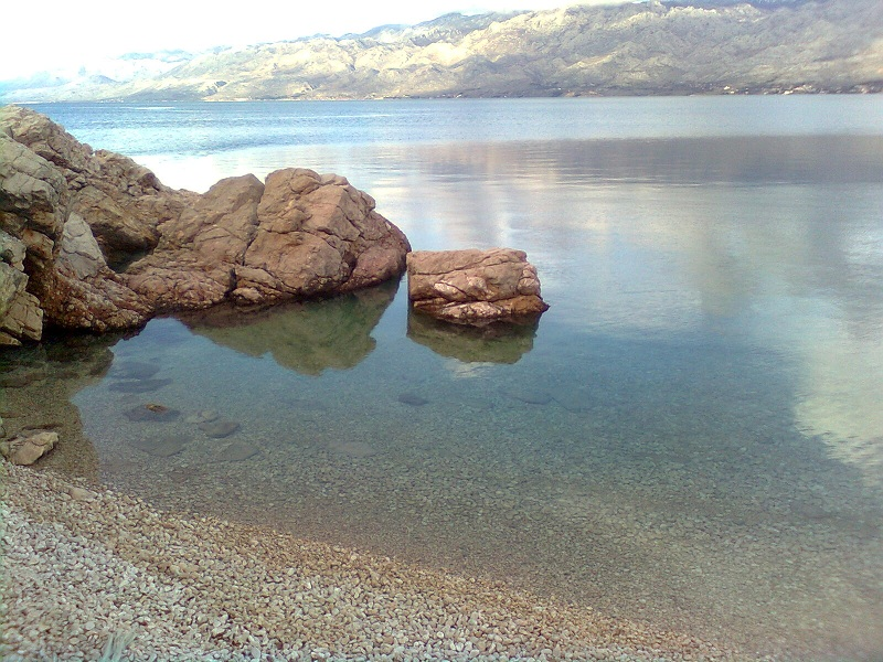 Beatch in slivnica